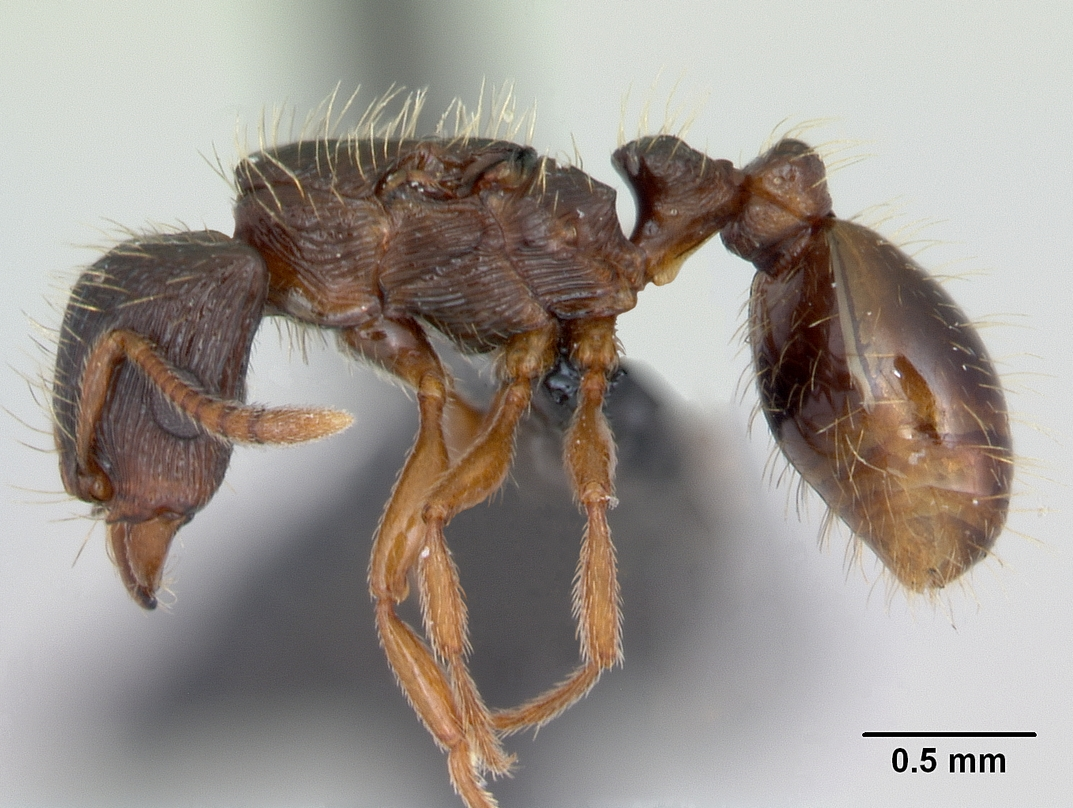 Profile view of ant Strongylognathus testaceus specimen casent0173185.